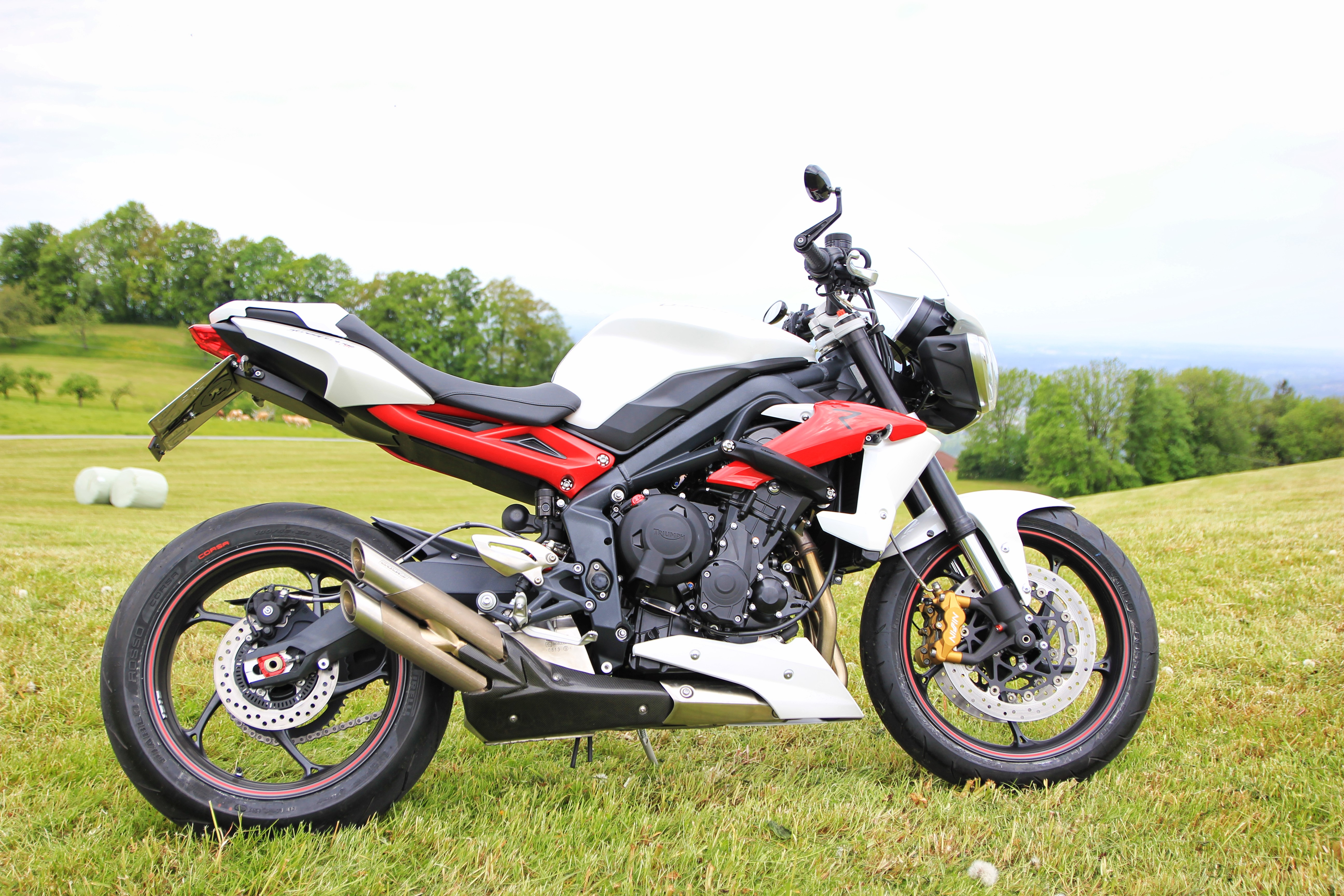 Triumph Street Triple R Model 2013, cleaned number plate holer, bodis exhaust; foto made it Bavaria, Germany; May 2013